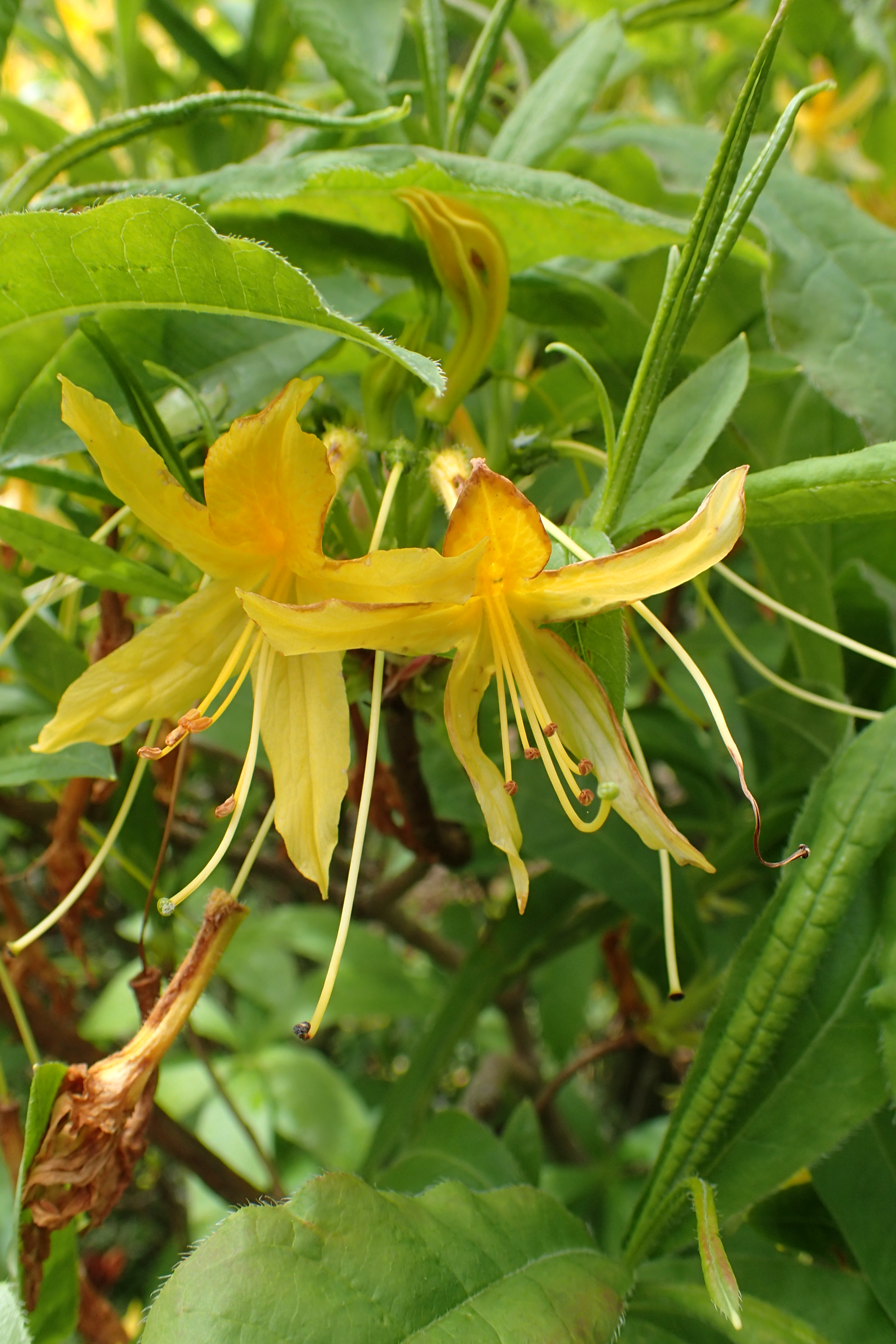 Rhododendron 'Ghent Yellow' in Wellington Botanical Garden